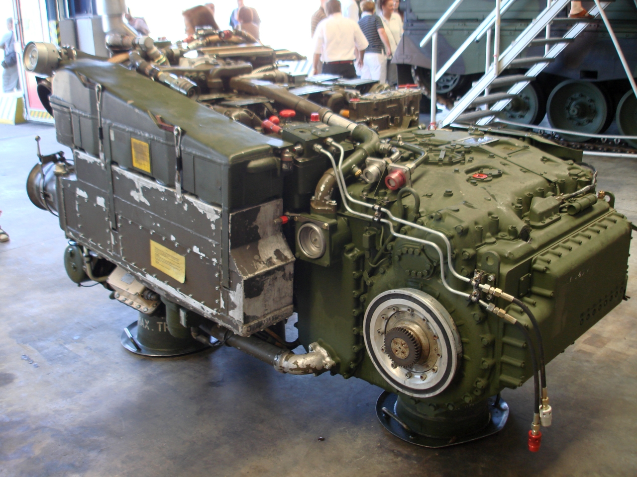 Engine Block Marder 1A3